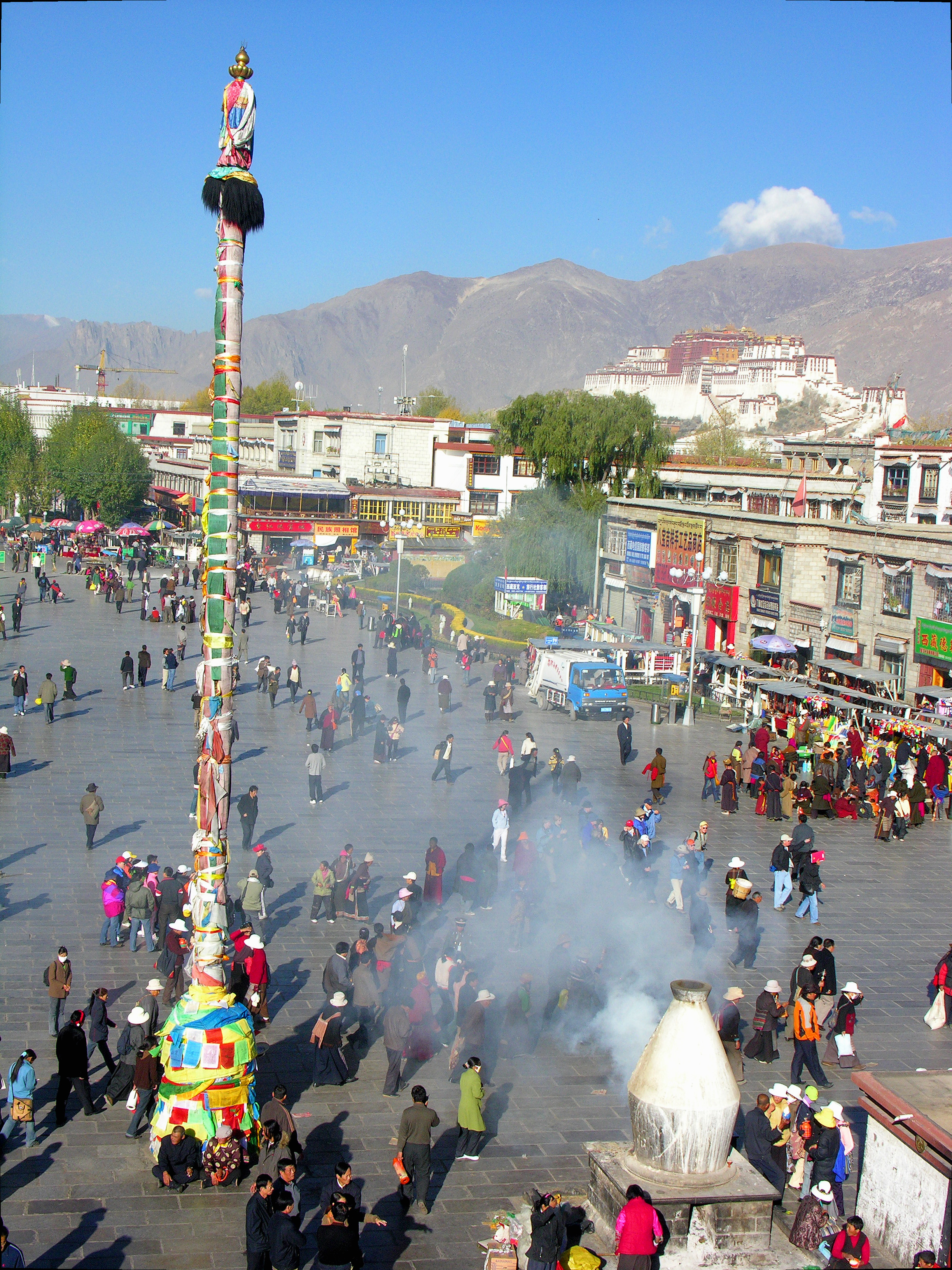 Looking down from the monastery onto Barkhor Street that has many street merchants. In the background is the Potala Palace. Lhasa, Tibet